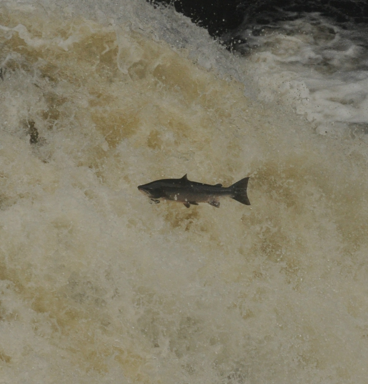 Salmon leaping at the Falls of Shin, Scotland